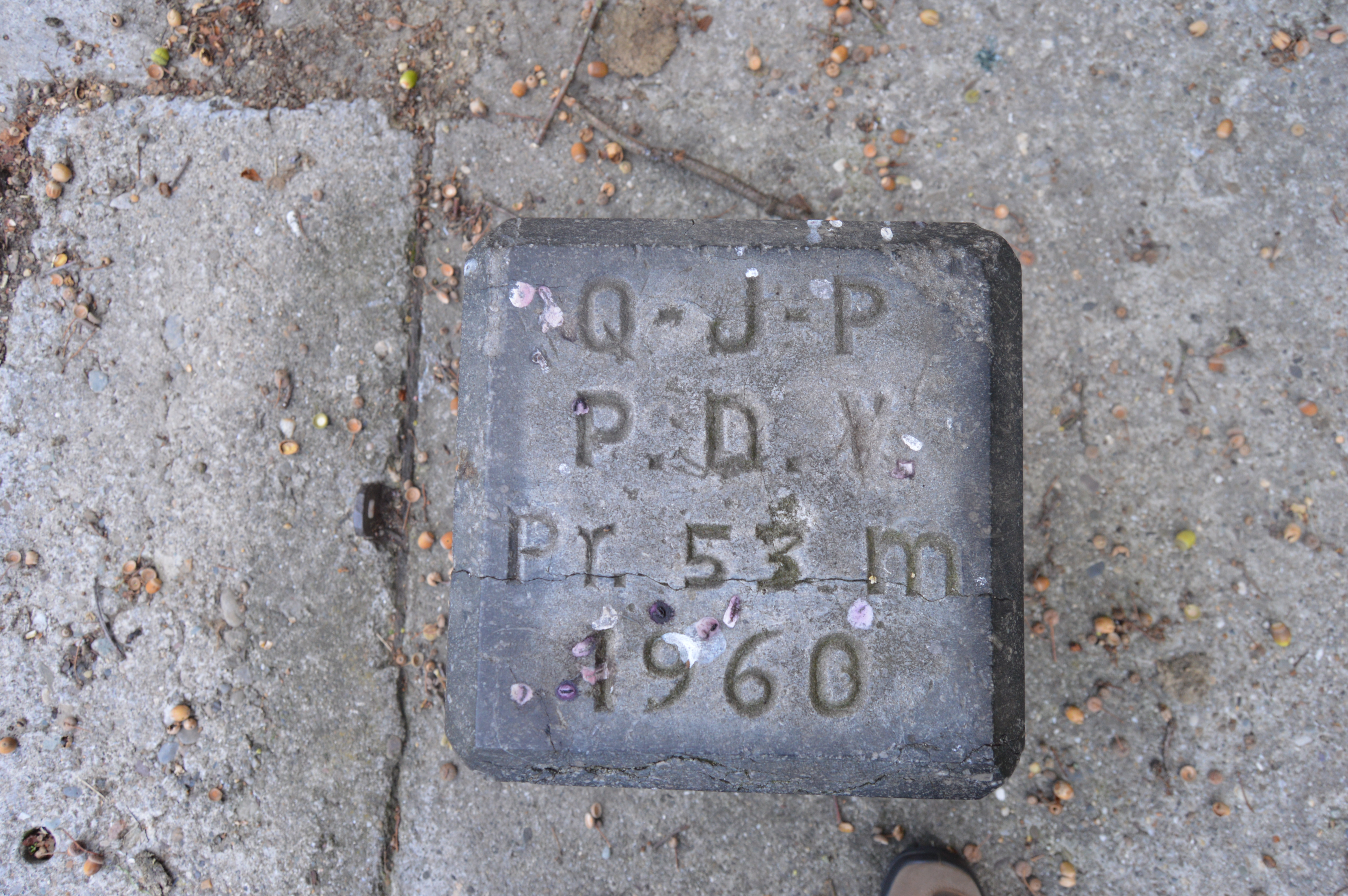 Ancient air flood pit ("Cow Pit") of the Quatre-Jean coal mine in Queue-du-Bois, Beyne-Heusay, Belgium